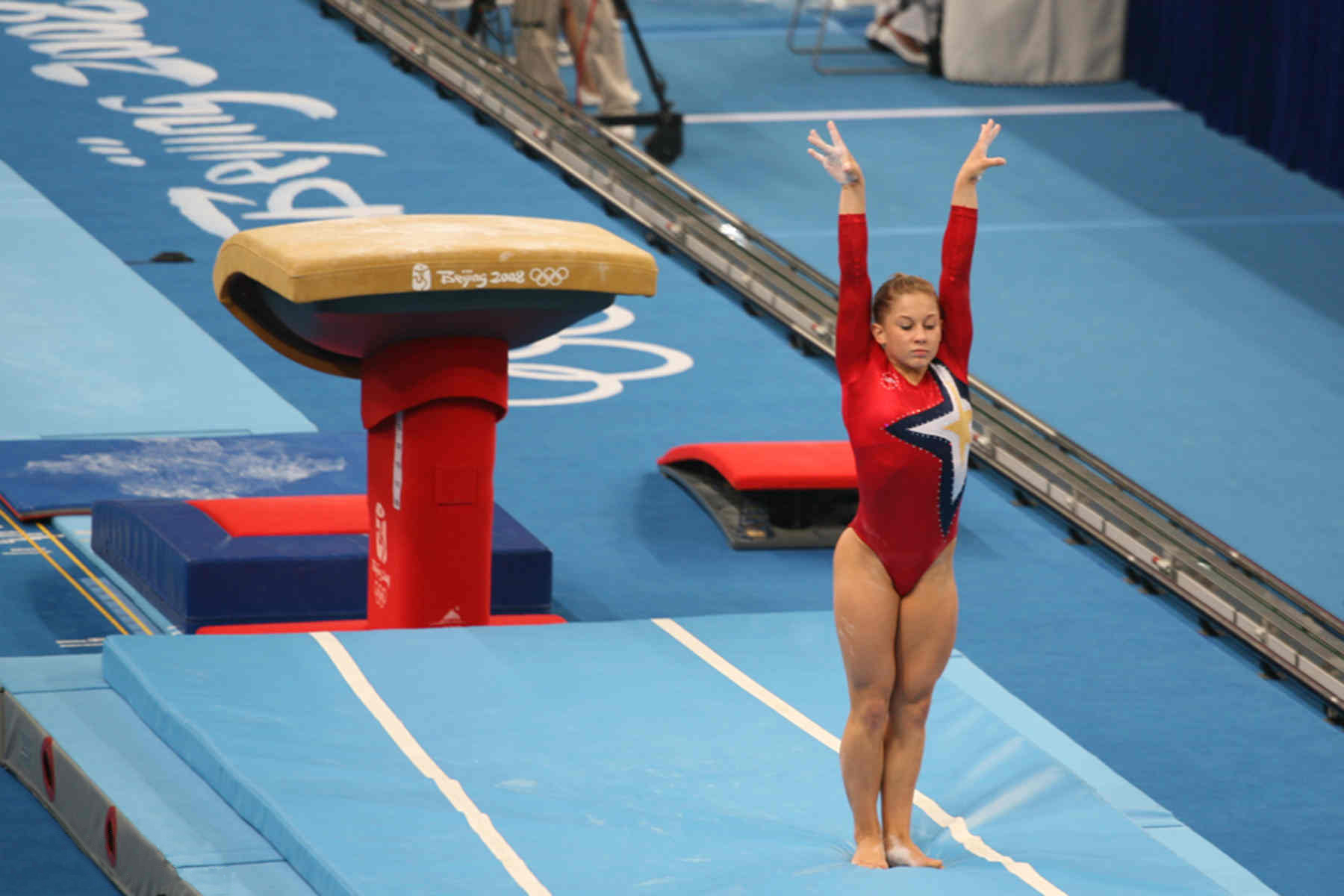 Shawn Johnson competing at the 2008 Summer Olympics competing on vault.